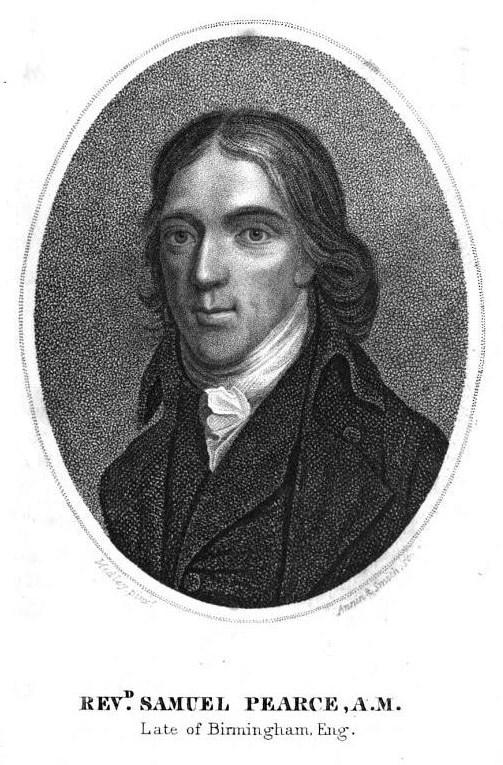 Portrait of Samuel Pearce (1766–1799), English Baptist minister.